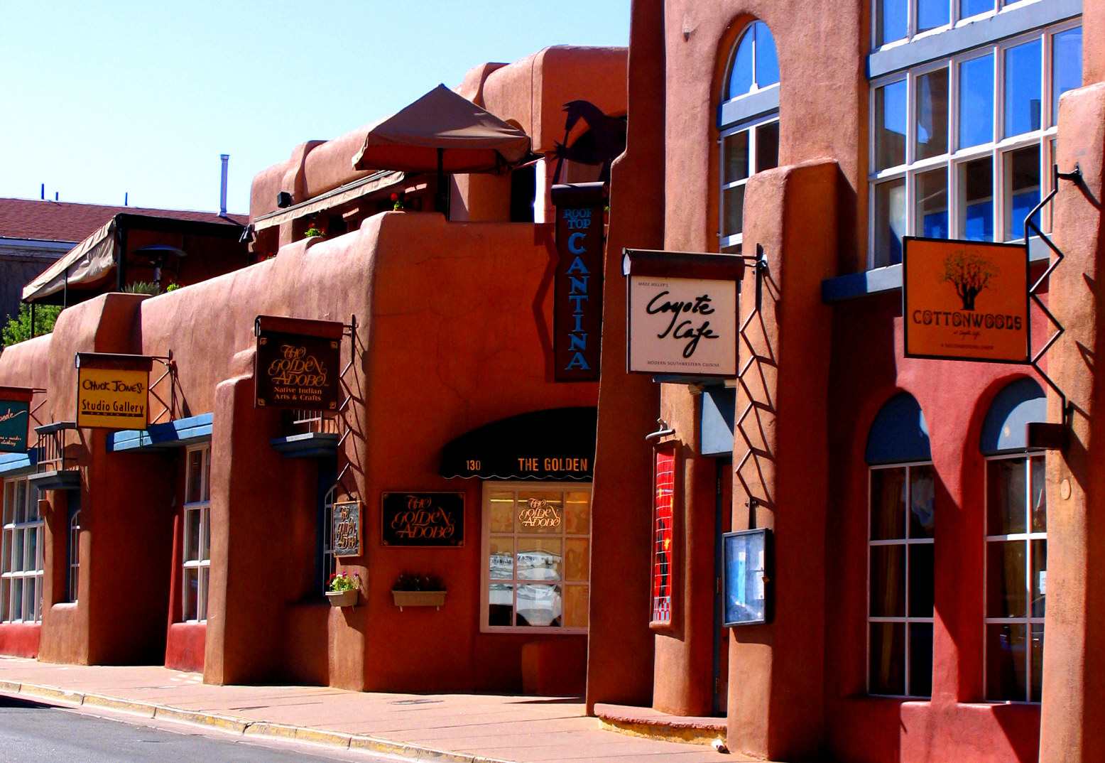 Street full of shops, galleries and restaurants.